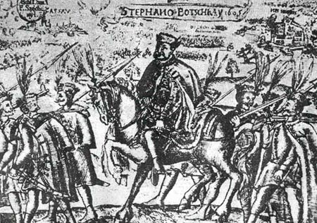 Stephen Bockay 1606